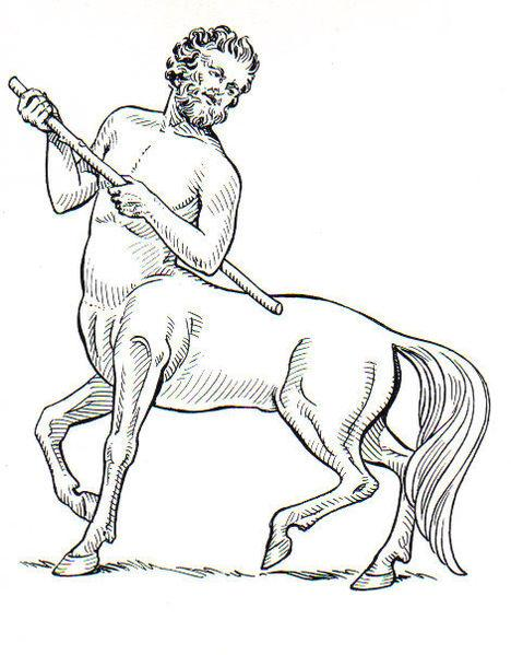 line art drawing of centaur.